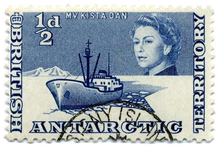 Stamp of British Antarctic Territory, 1963, 0,5d.